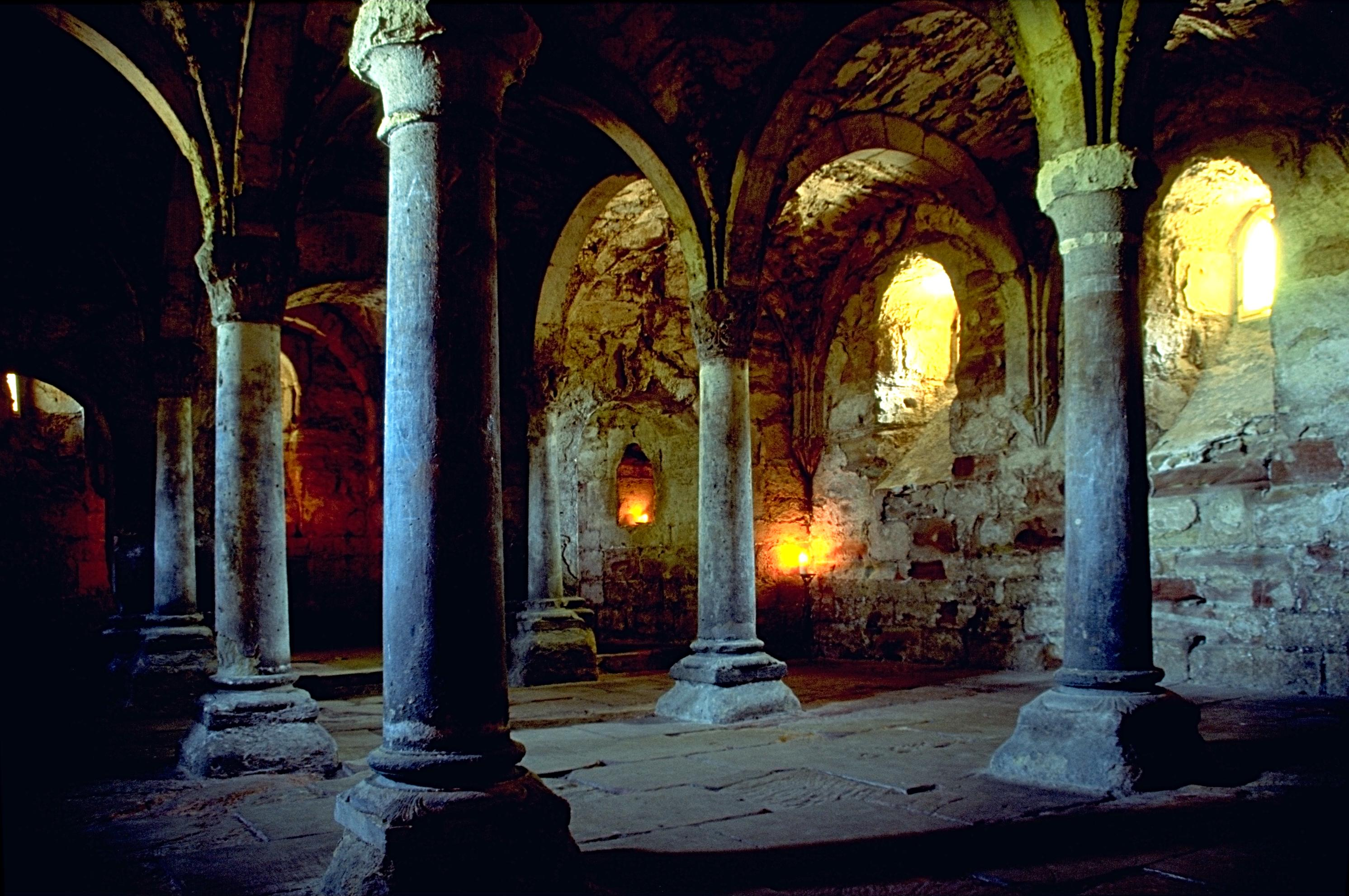 Crypta of cloister Memleben Photo was taken using the following technique: Film: Fuji Velvia Lens: 28-88 Filter: none Body: Minolta 600si Support: simple tripod Image with Information in English Bild mit Informationen auf Deutsch